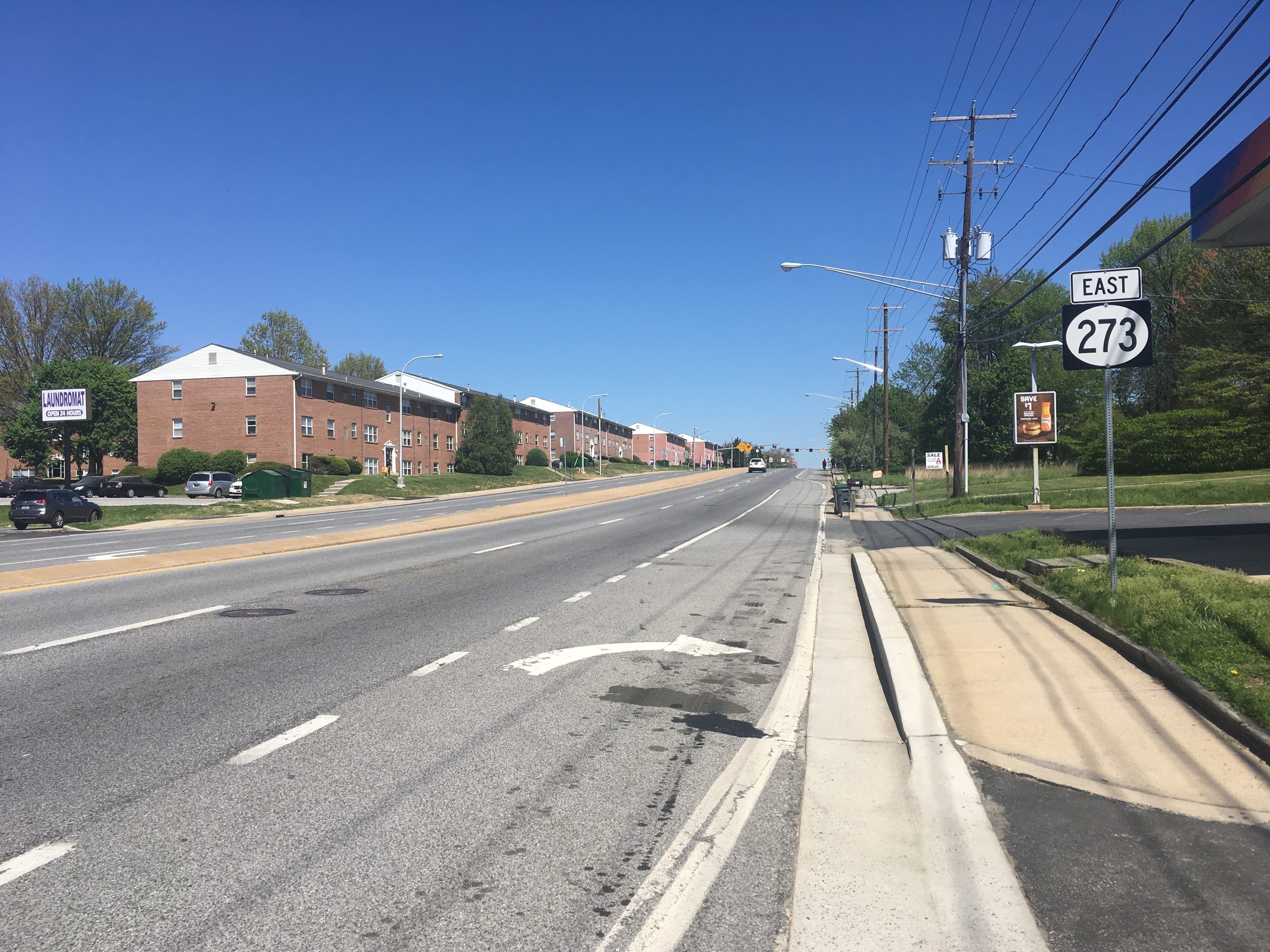 Eastbound Delaware Route 273 (Christiana Road) past the intersection with Delaware Route 37 (Airport Road) near Christiana, Delaware